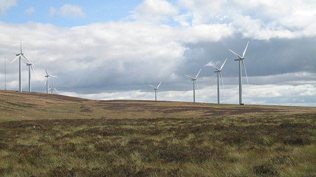 Drumderg power station Seen from Dun Moss (and most of Perthshire).